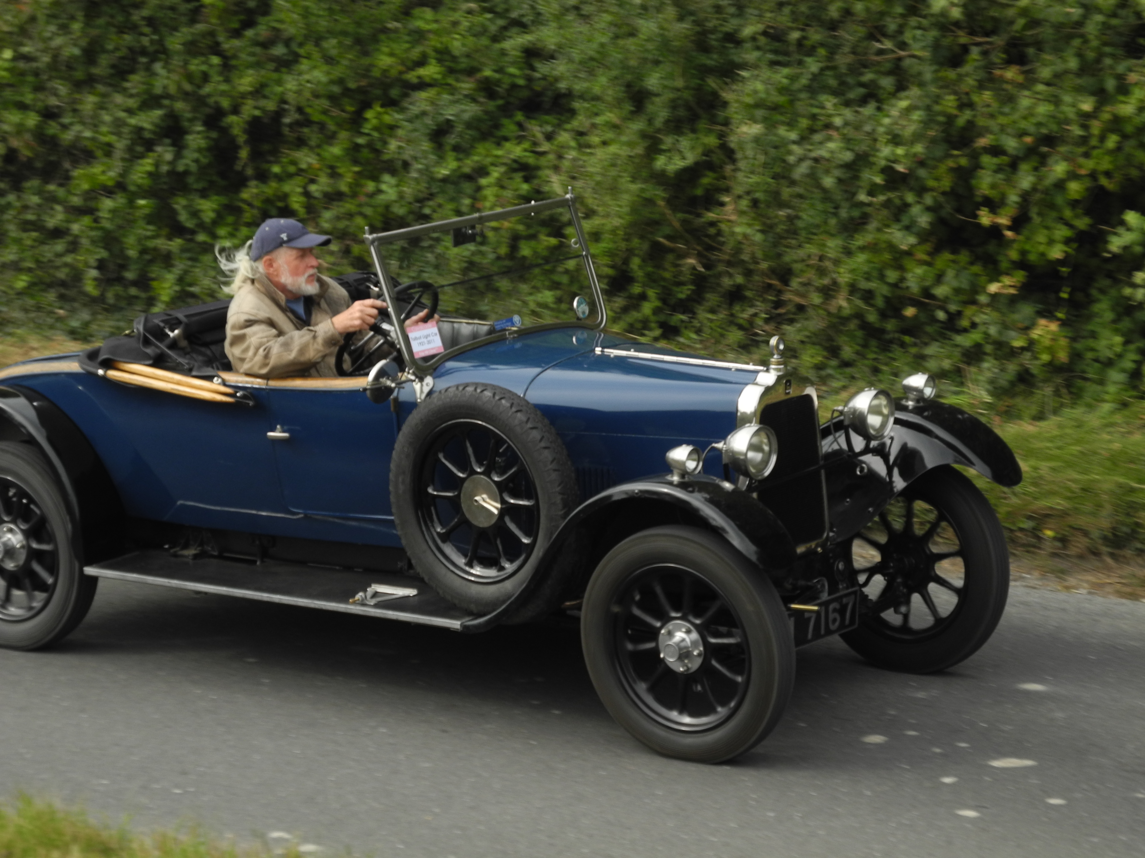 1926 Talbot 10/23 (DVLA) first registered 31 December 1926, 1073.cc Talbot Kop Hill 2011